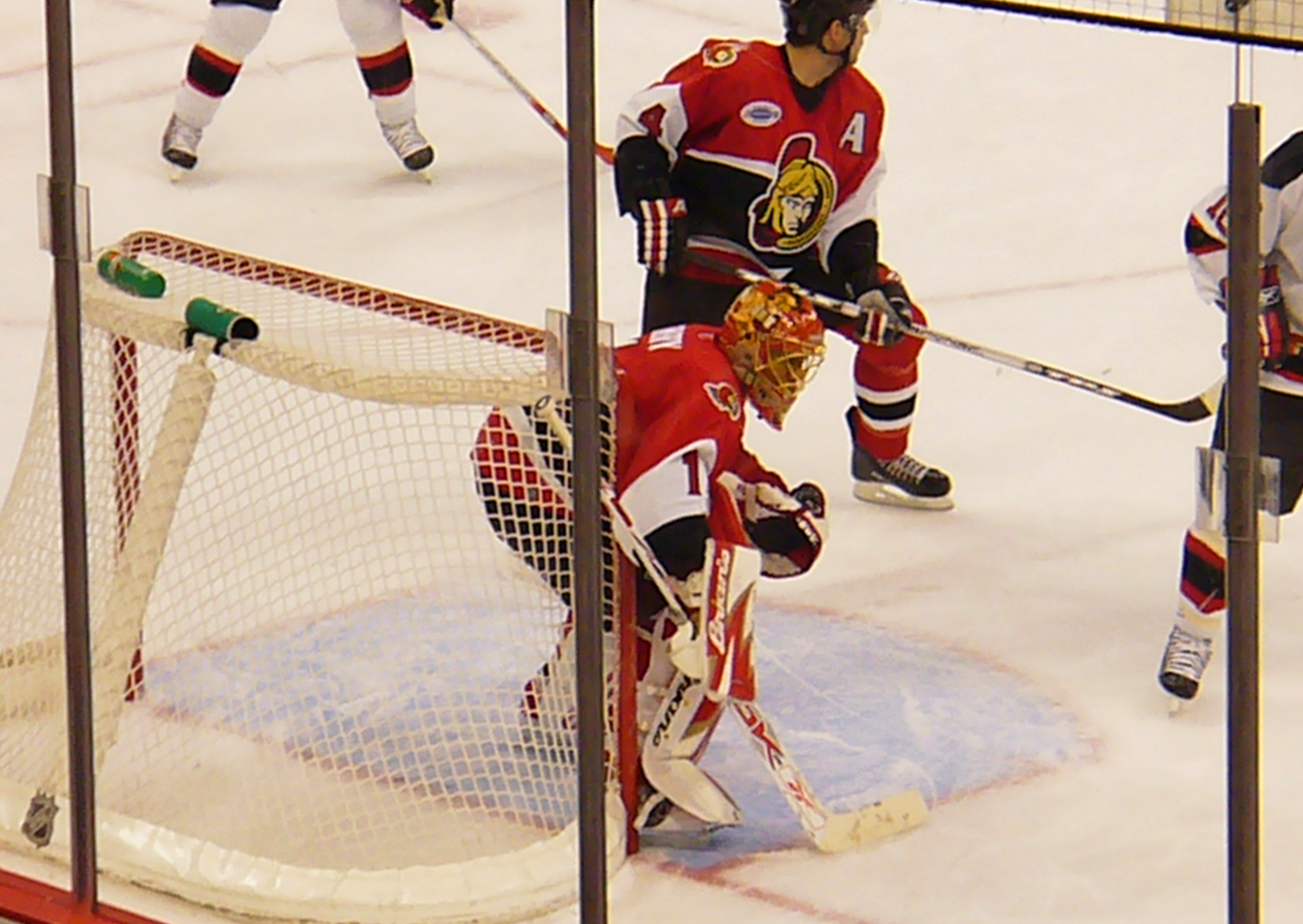 Ray Emery, ice hockey goaltender of the Ottawa Senators, Chris Phillips in background